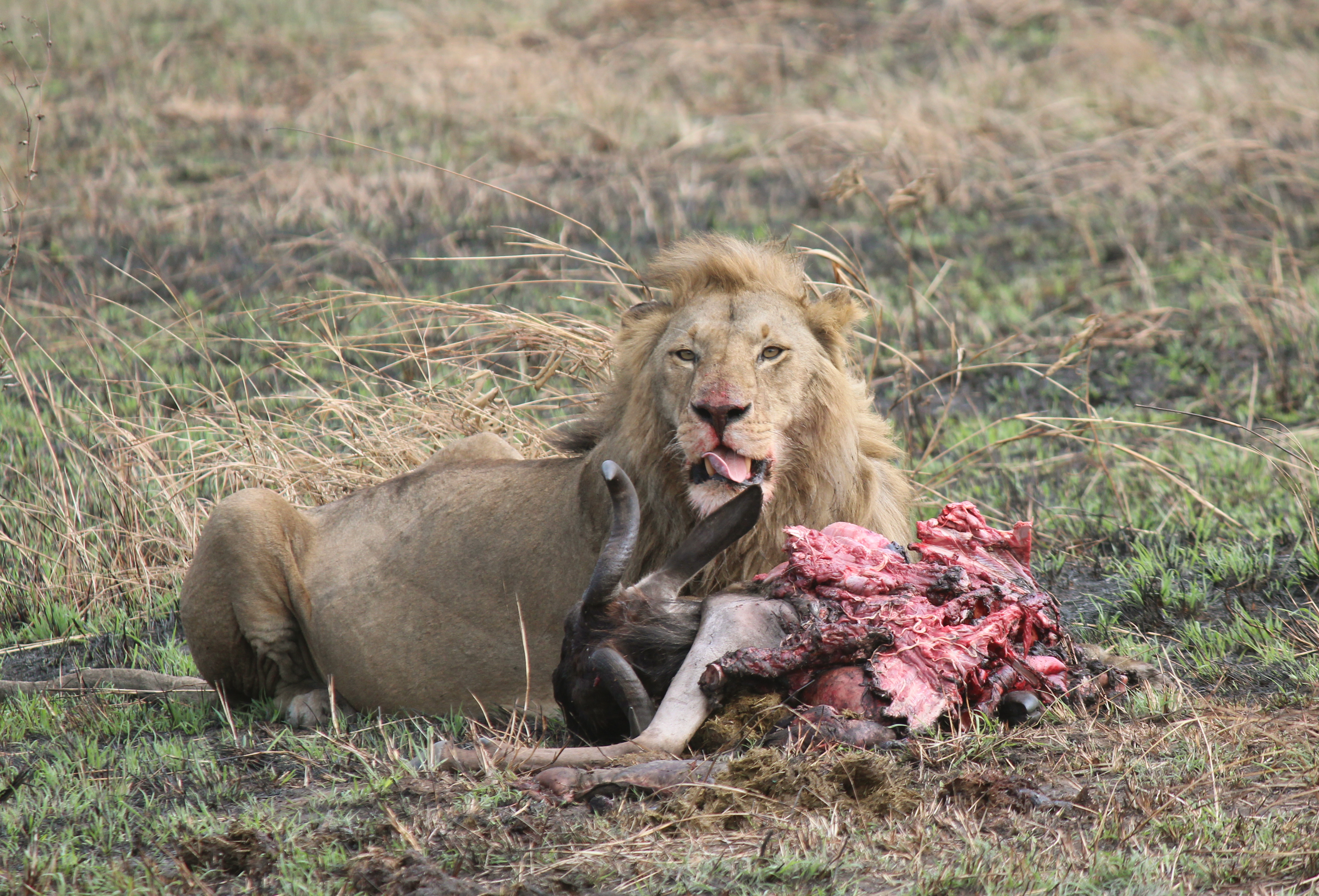 Male Panter leo feeding on wilderbeest in Mara Triangle, Masai Mara Reserve.